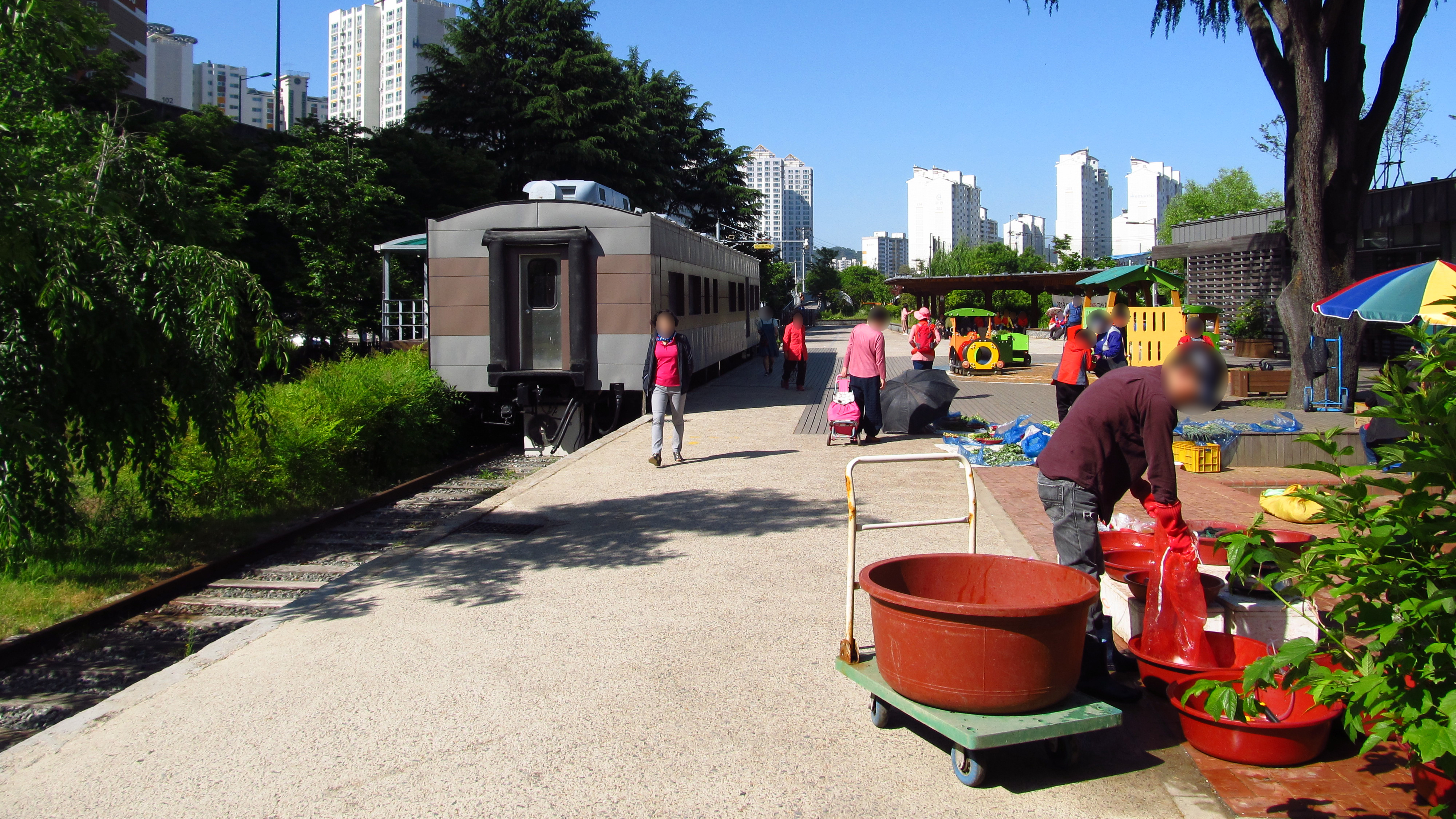 The site of the platform at Namgwangju Station on Gyeongjeon Line(Korea National Railroad) in Dong-gu, Gwangju, Republic of Korea(South Korea)